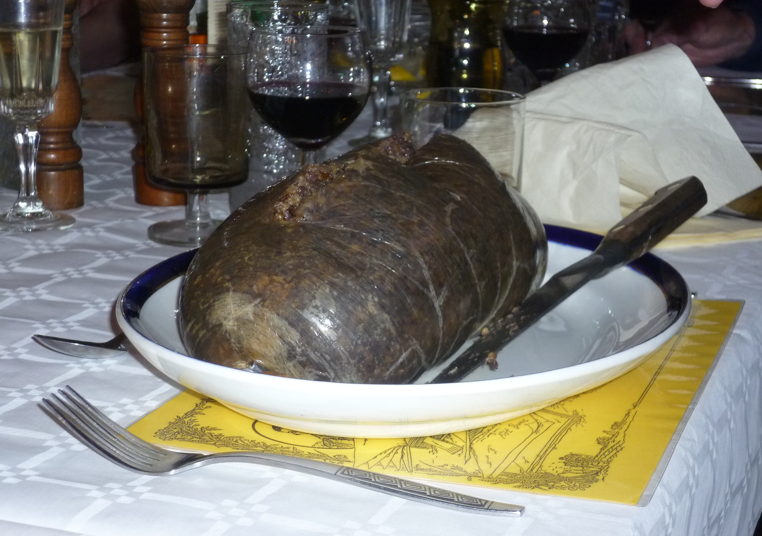 Haggis at a Burns Supper